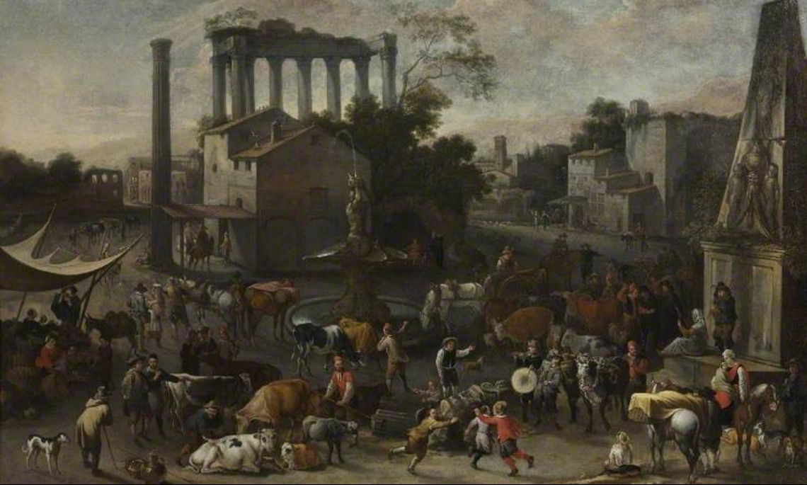 townscape; place (Rome); figure; animal (cattle, dog, horse, mule); buildings and gardens; trade and industry